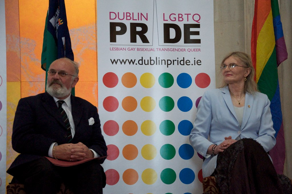 Dr. Lydia Foy and Senator David Norris at the launch of Dublin Pride 2010